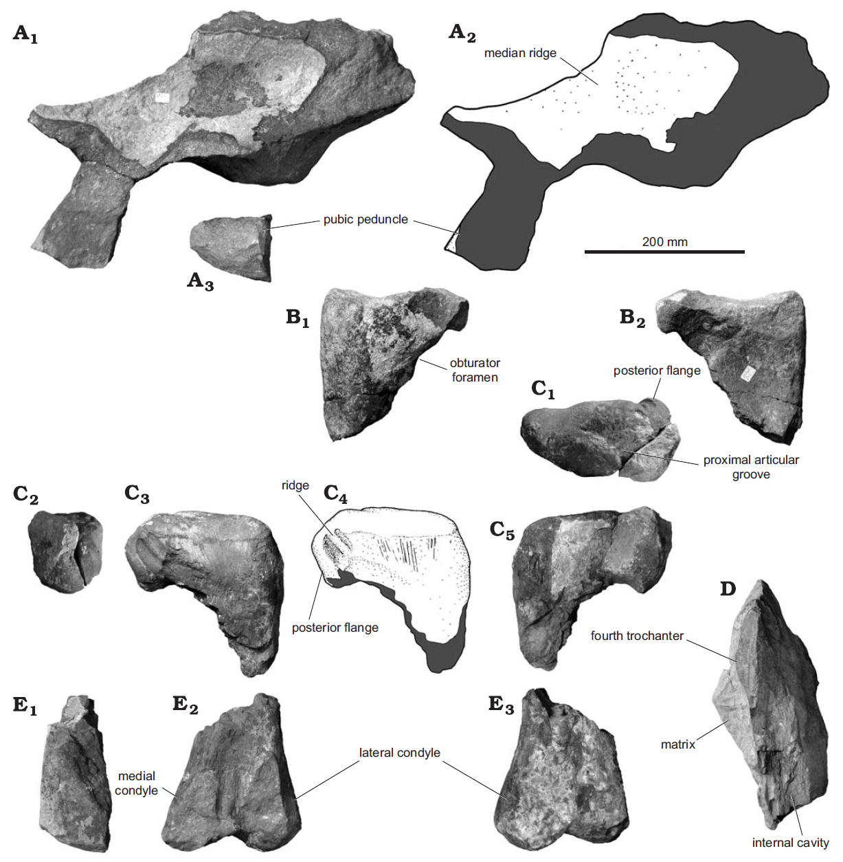 Tetanuran theropod Cruxicheiros newmanorum gen. et sp. nov. pelvic bones (WARMS 15771) and right femur (WARMS 15770) from the Chipping Norton Limestone Formation, Bathonian of the United Kingdom. A. Left ilium in lateral view (A1, A2) and pubic peduncle in ventral view (A3). B. Left pubis in lateral (B1) and medial (B2) views. C. Proximal portion of right femur in proximal (C1), medial (C2), posterior (C3, C4) and anterior (C5) views. D. Shaft fragment of right femur in lateral view. E. Distal portion of right femur in medial (E1), posterior (E2) and anterior (E3) views.